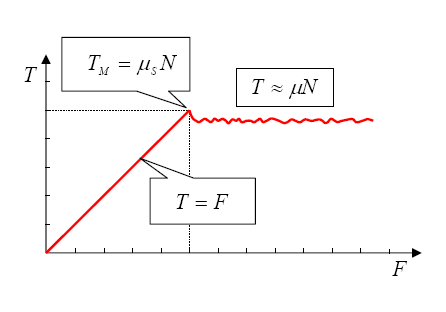 Friction (T) response to increasing force (F) pushing a body